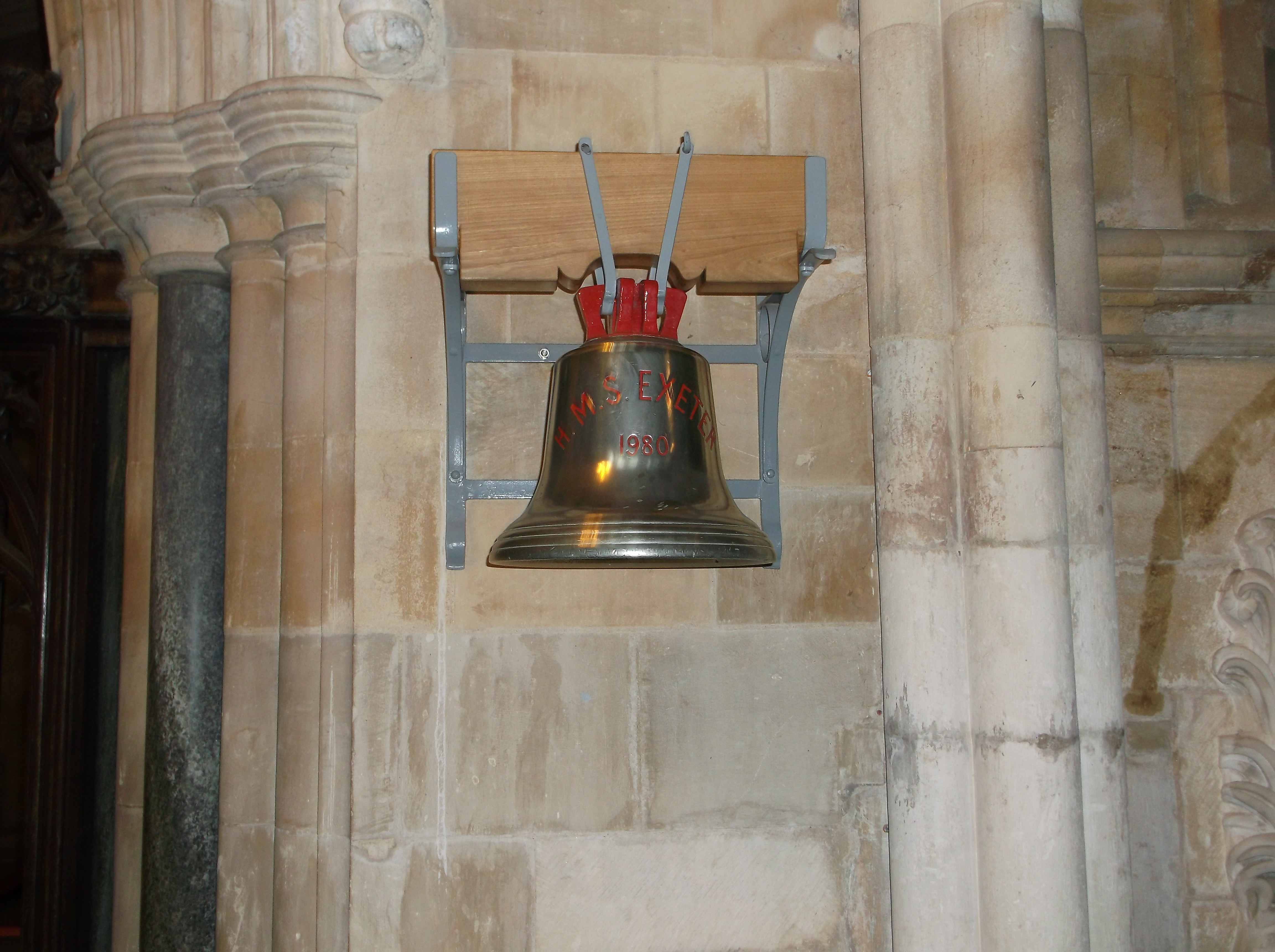 Bell from HMS Exeter (1980), in Exeter Cathedral